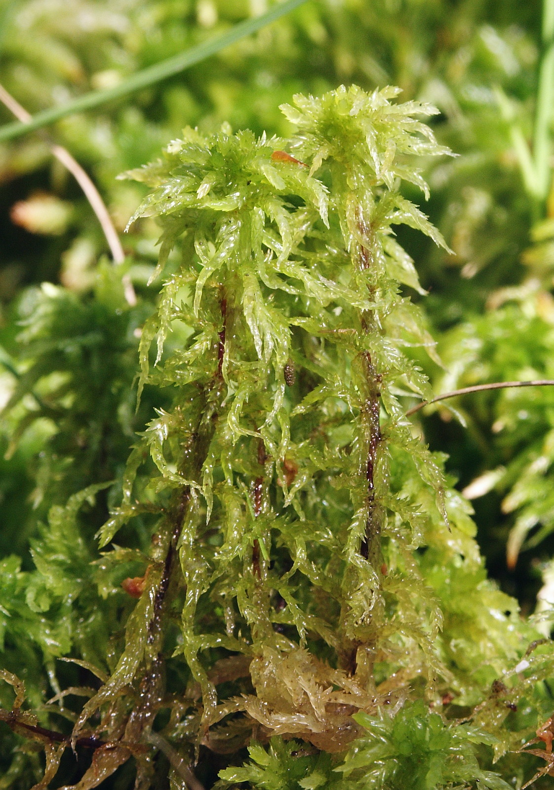 Sphagnum Section Subsecunda, Virngrund, Germany